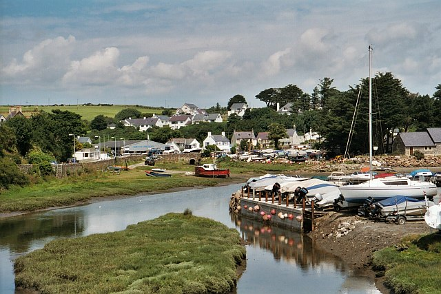 Abersoch Inner Harbour, near to Abersoch, Gwynedd, Great Britain. The inner harbour at Abersoch offers sheltered moorings as the Afon Soch widens just before reaching the sea.